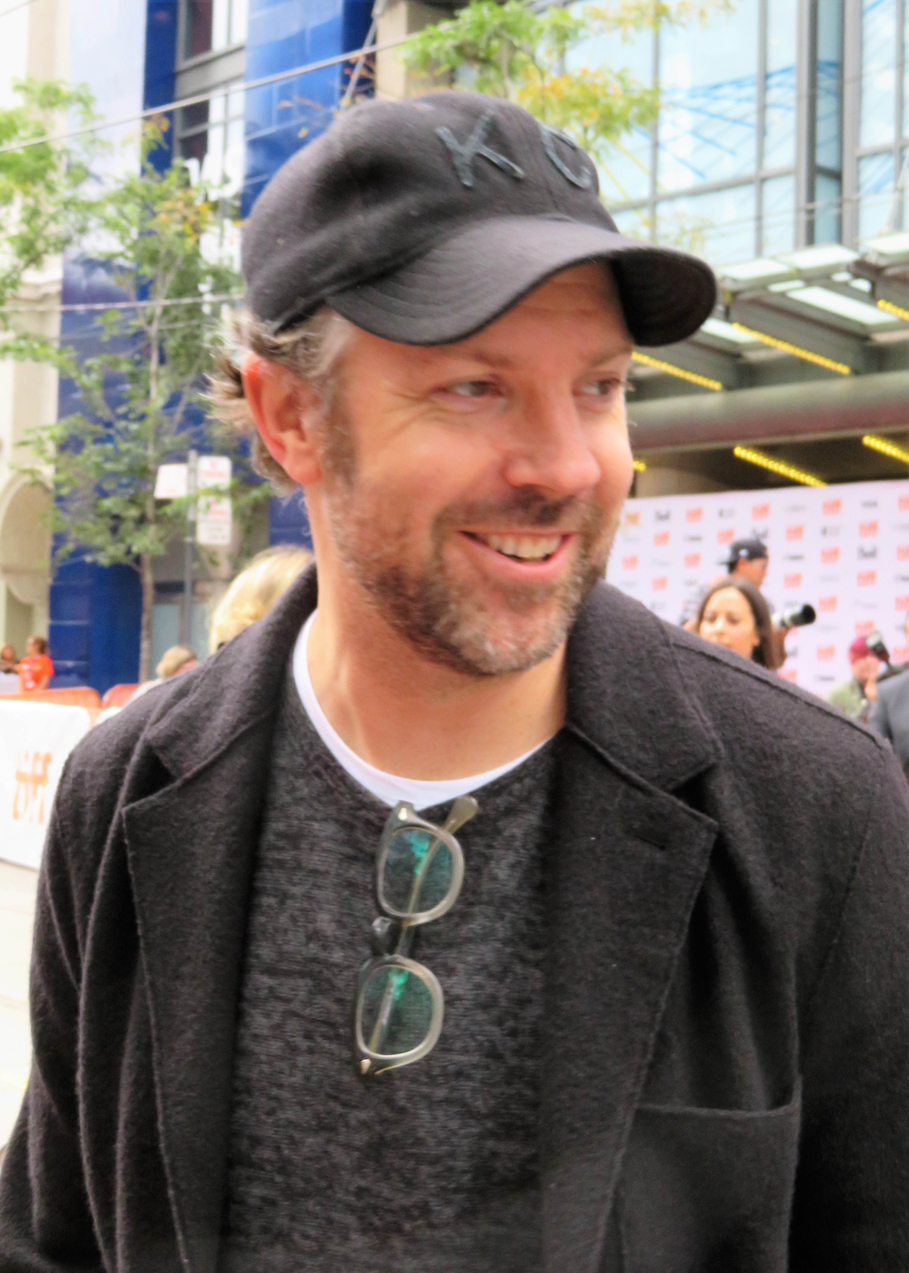 Jason Sudeikis at the premiere of Kodachrome, 2017 Toronto Film Festival